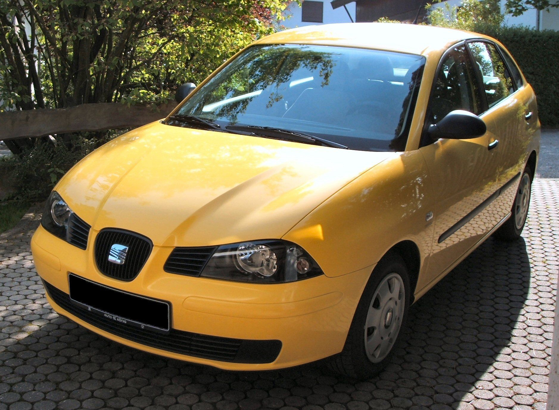 Seat Ibiza, own work.